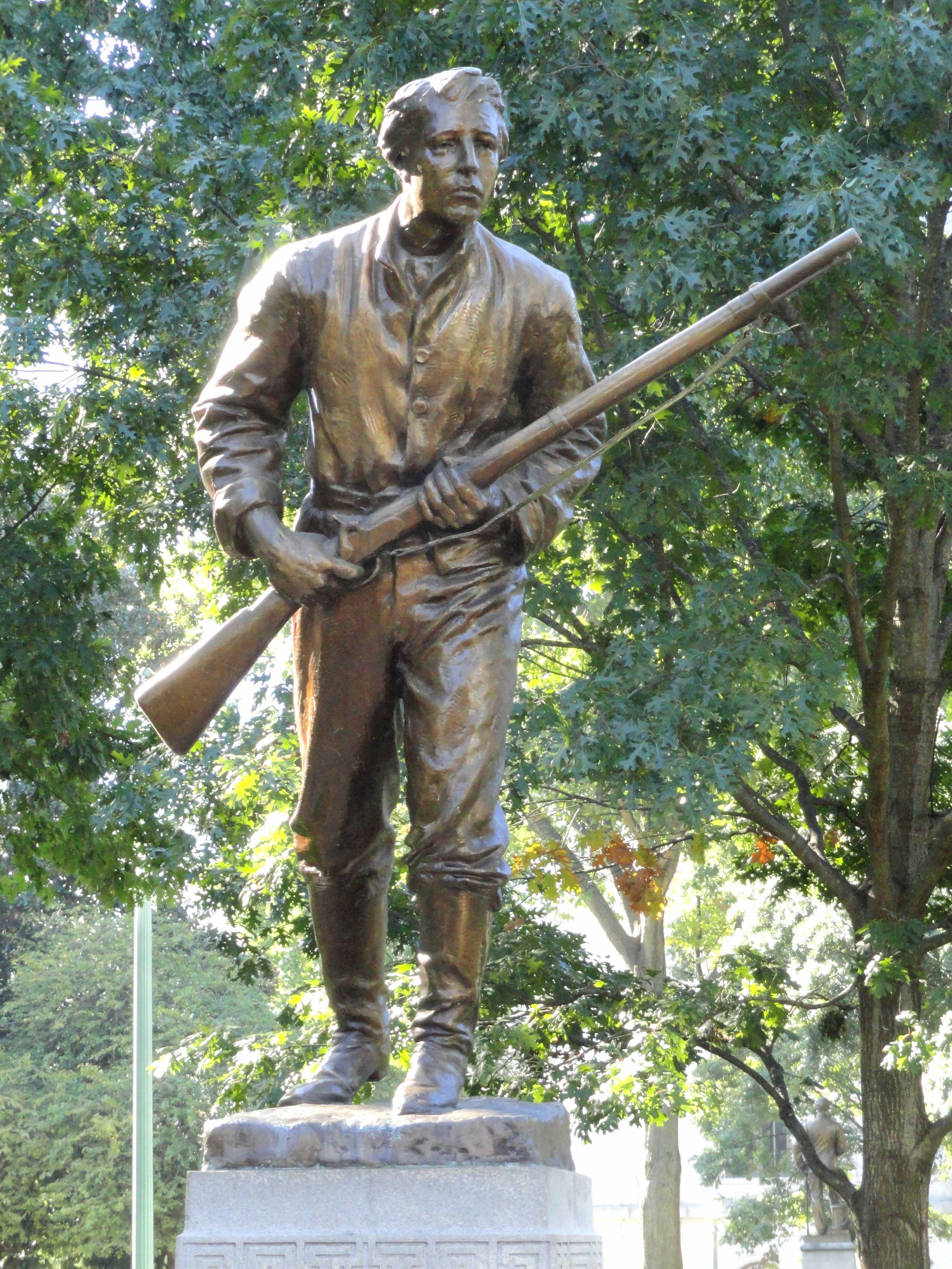 Memorial to Henry Lawson Wyatt by Gutzon Borglum (March 25, 1867 – March 6, 1941), dedicated June 10, 1912, and located on the grounds of the North Carolina State Capitol, Raleigh, North Carolina, USA. This image is in the public domain because the sculptor has been dead for more than 70 years.